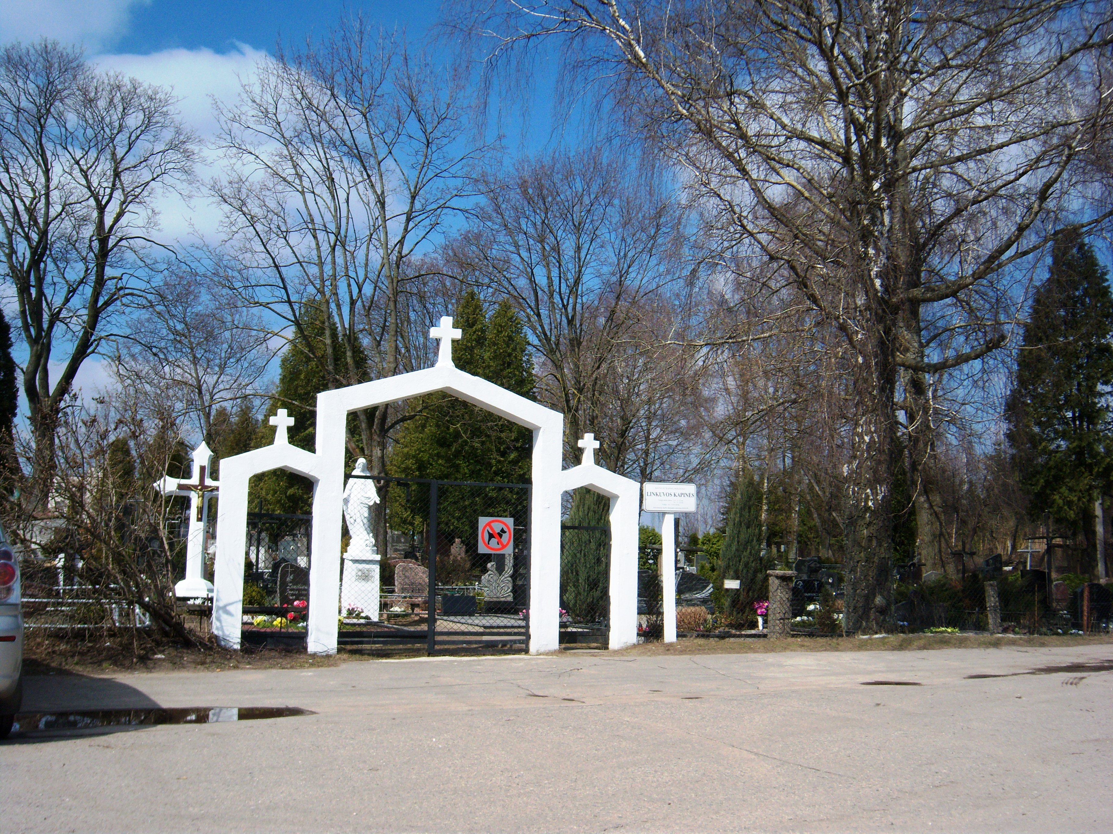 Linkuva cemetery, Mosėdžio street, Kaunas, Lithuania